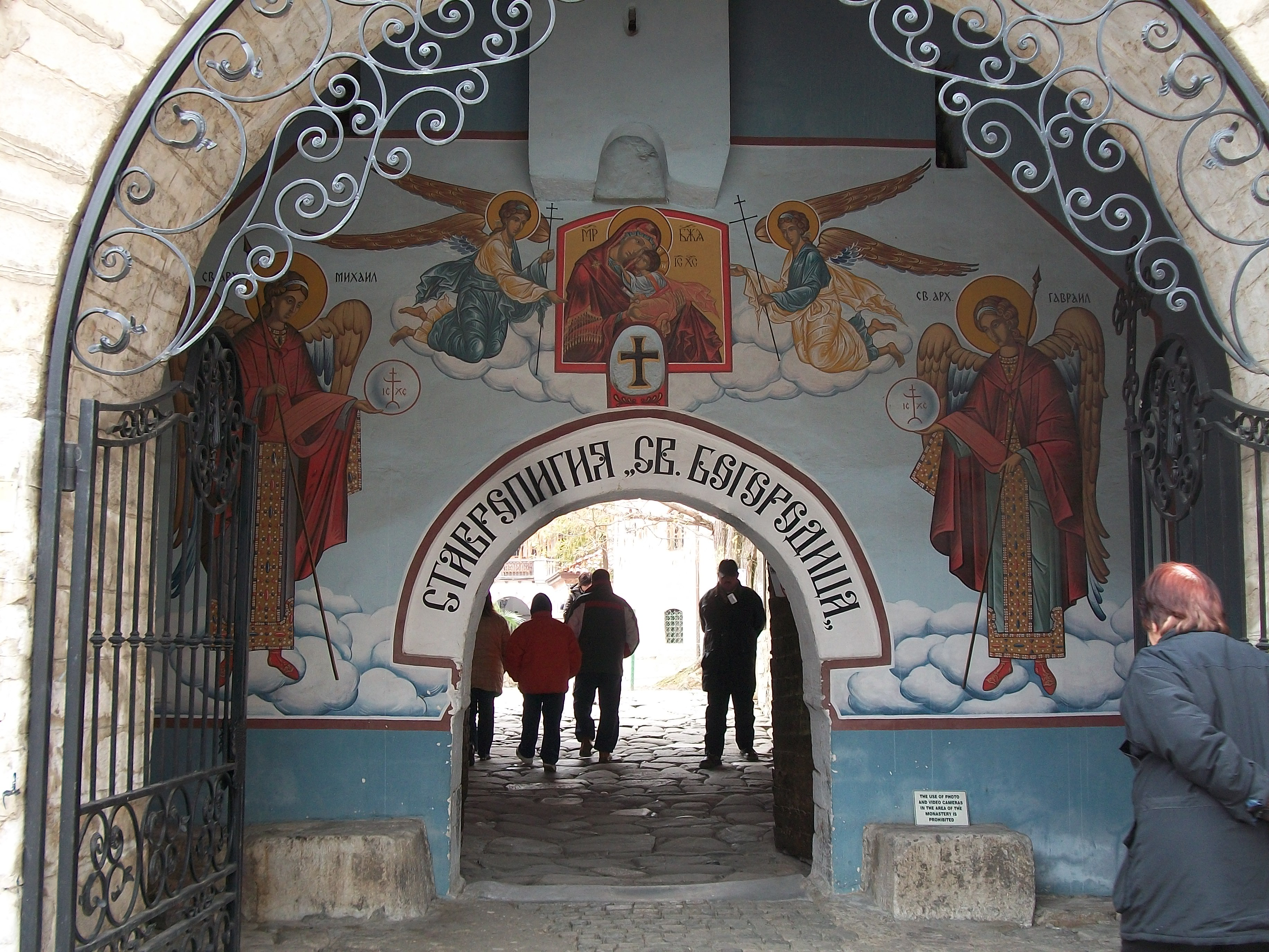 Enterance of the Petritsoni Monastery